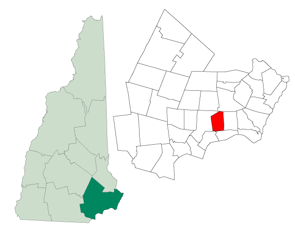 Map of a municipality in Rockingham County, New Hampshire